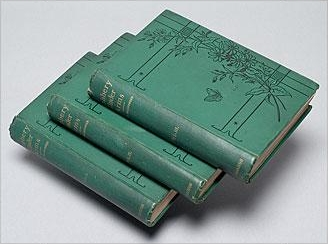 Robbery Under Arms. A Story of Life and Adventure in the Bush and in the Goldfields of Australia. By Rolf Bolderwood. London: Remington and Co Publishers, 1888. First edition. Three octavo volumes (7 3/16 x 4 13/16 inches; 182 x 122 mm.). 300pp; 300pp; 291pp. Original smooth grass-green cloth with front covers decoratively stamped in black and spines ruled and lettered in gilt. Gray floral patterned endpapers.